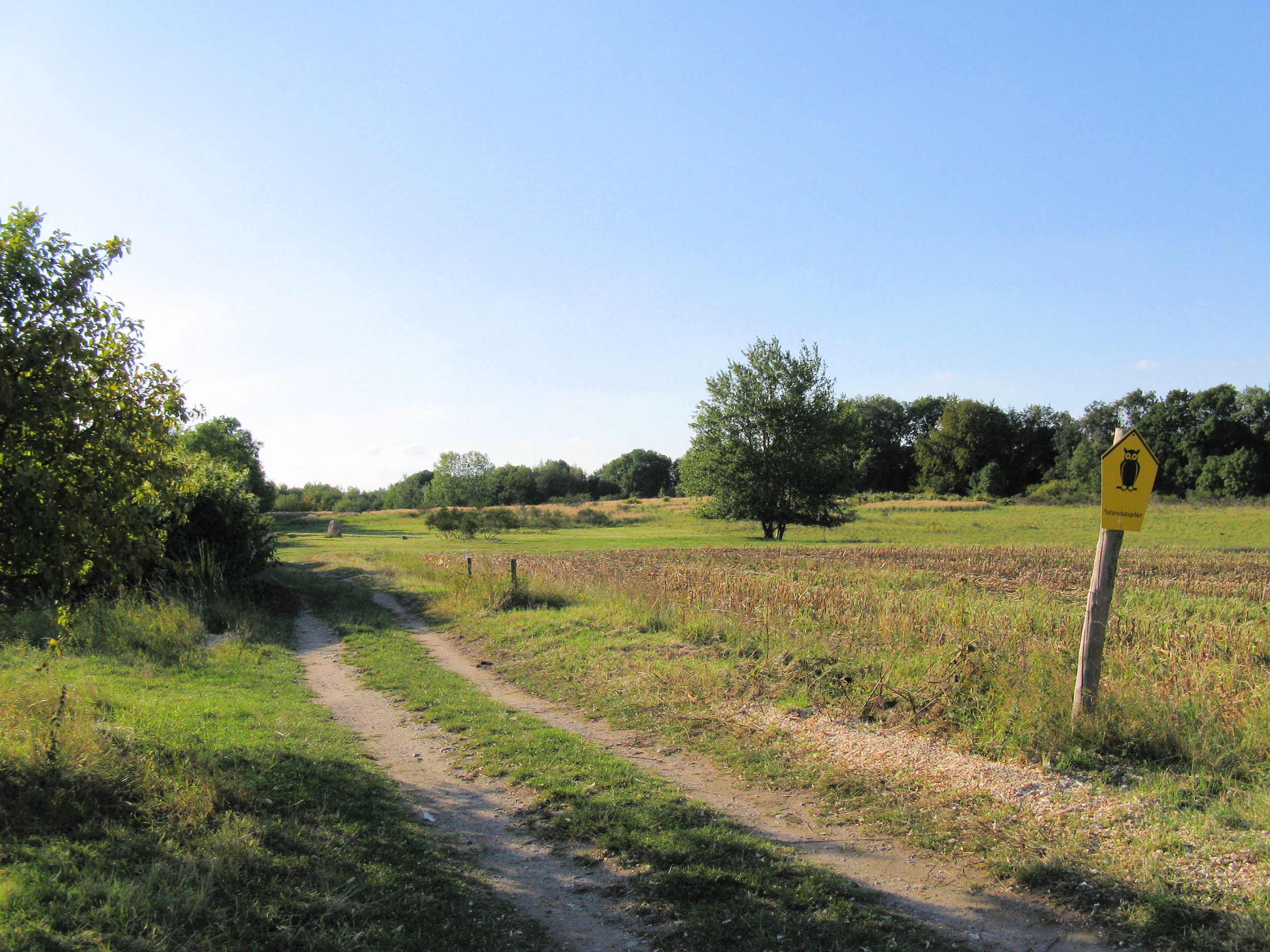 Road trough the abandoned village Lankow, disctrict Nordwestmecklenburg, Mecklenburg-Vorpommern, Germany